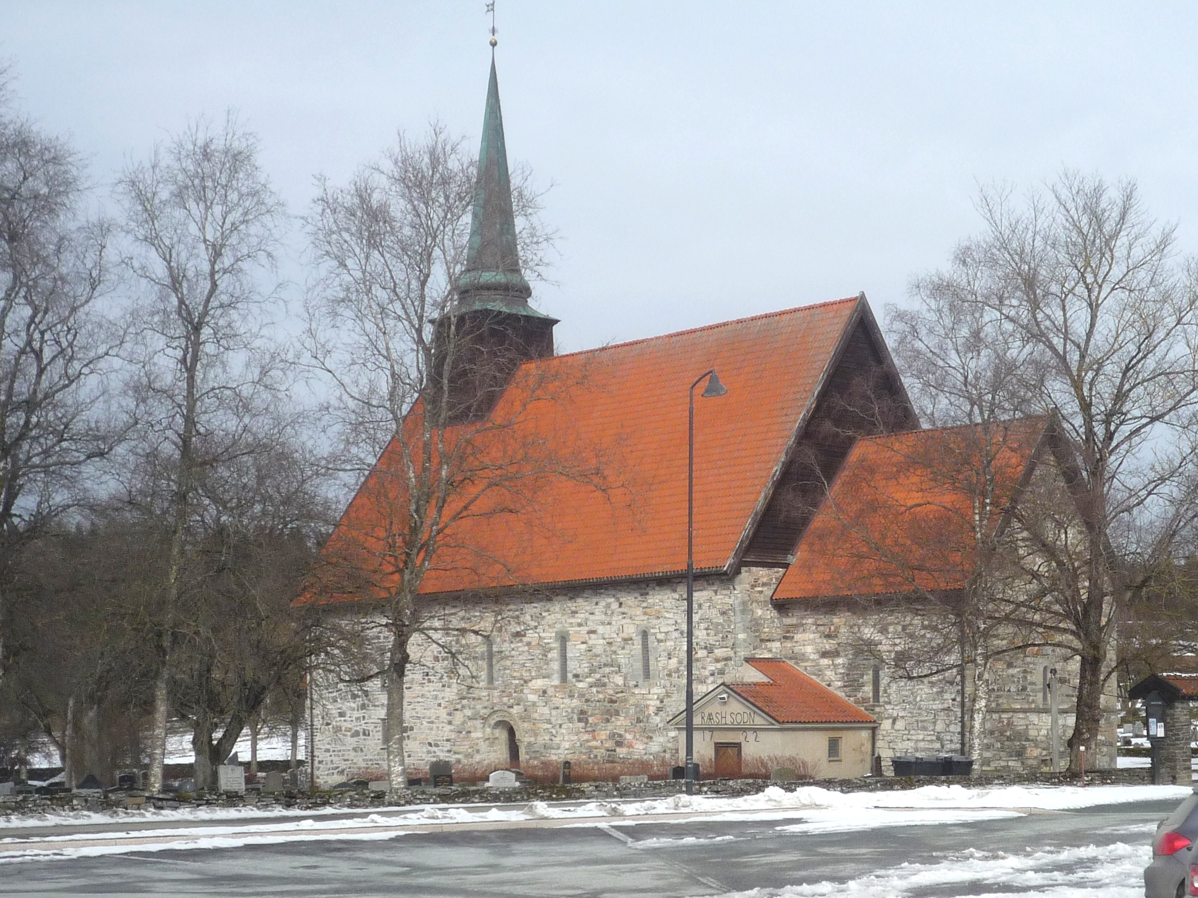 Stiklestad church, Verdal, innherred, Trøndelag, Norway